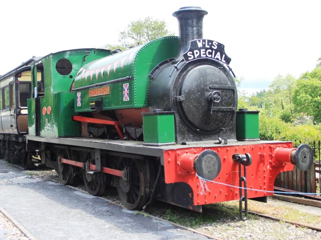 Kitson & Co. 0-6-0ST 5474 Carnarvon on display at Staverton, Devon.